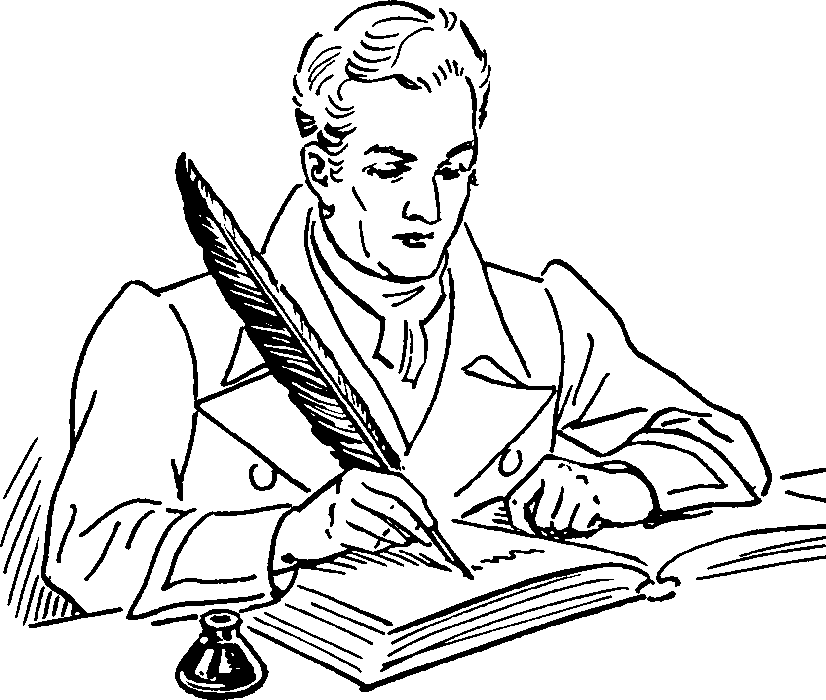 Line art representation of a Quill